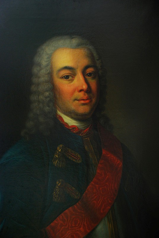 Karl von Brevern